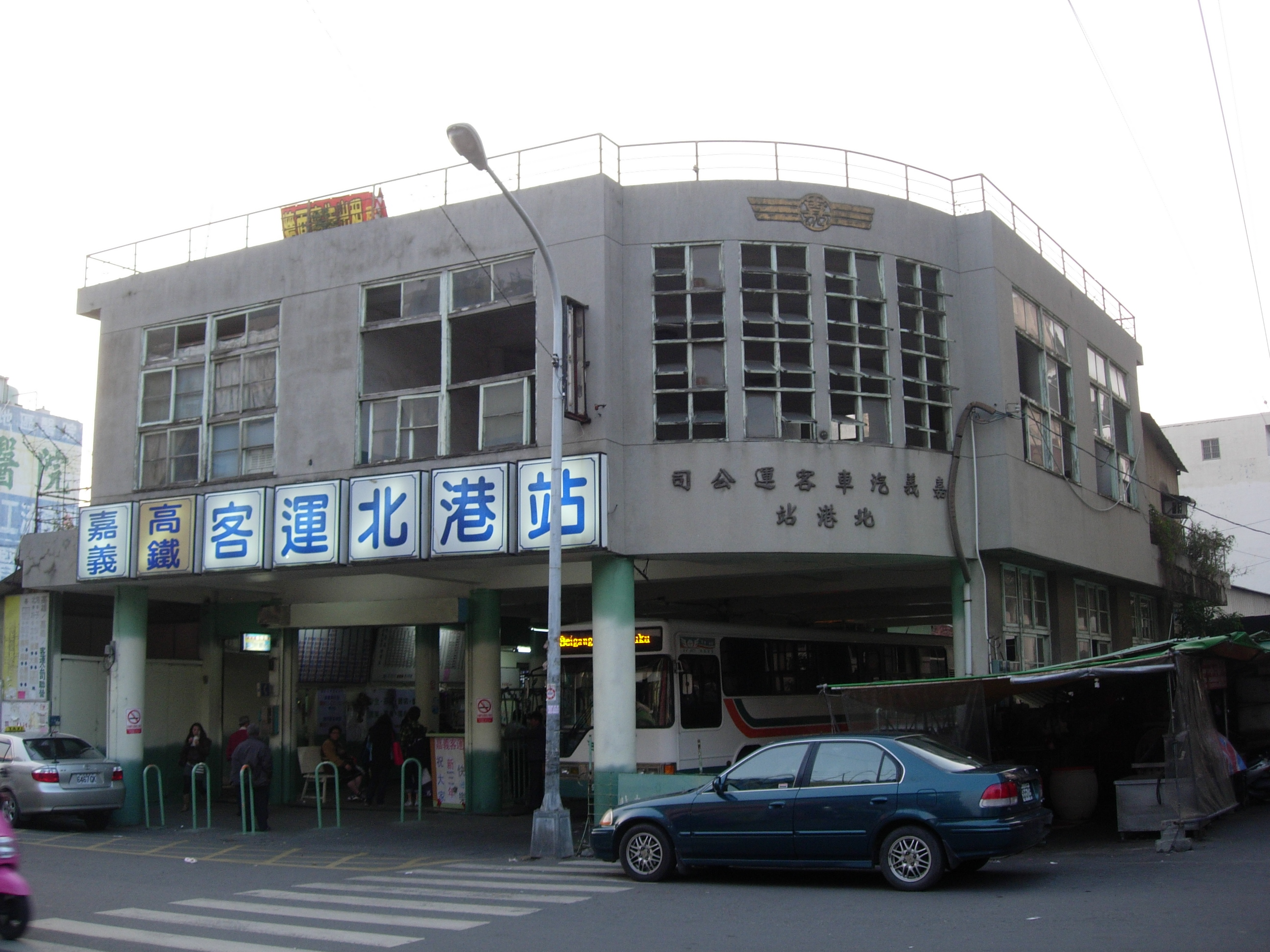 Chia-yi Bus Peikang Station Right中文（台灣）: 嘉義客運北港站右面。